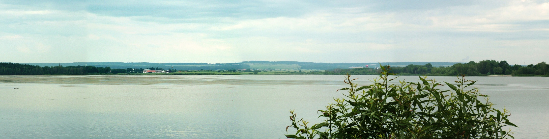 Horusice Pond, Czech Republic.